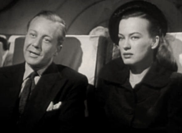 Gene Raymond and Osa Massen in the American film Million Dollar Weekend (1948) - cropped screenshot